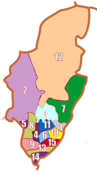 1. Bardakčije 2. Betanija - Šip 3. Breka - Koševo II 4. Ciglane - Gorica 5. Donji Velešići 6. Džidžikovac - Koševo I 7. Hrastovi - Mrkovići 8. Koševsko Brdo 9. Marijin Dvor - Crni Vrh 10. Mejtaš - Bjelave 11. MZ Park - Višnjik 12. Pionirska Dolina – Nahorevo 13. Skenderija - Podtekija 14. Soukbunar 15. Trg Oslobođenja